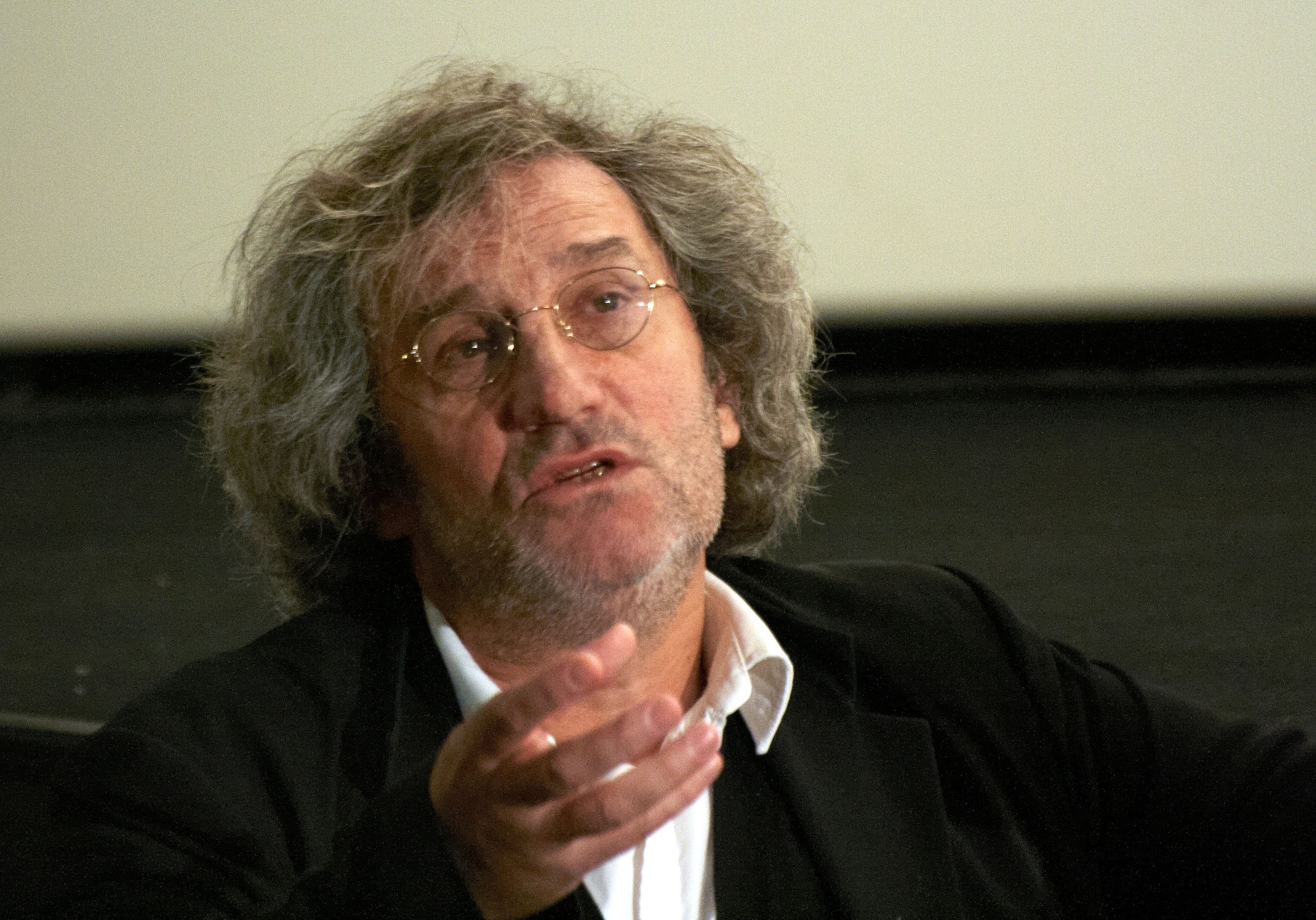 French director Philippe Garrel at the Festival Internacional de Cine de Donostia-San Sebastian 2008